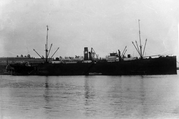 A/S Hektor's ship "Ronald" (1920), the world's first purpose built whaling factory. 1940 renamed Mafuta. 1948 renamed Jarama